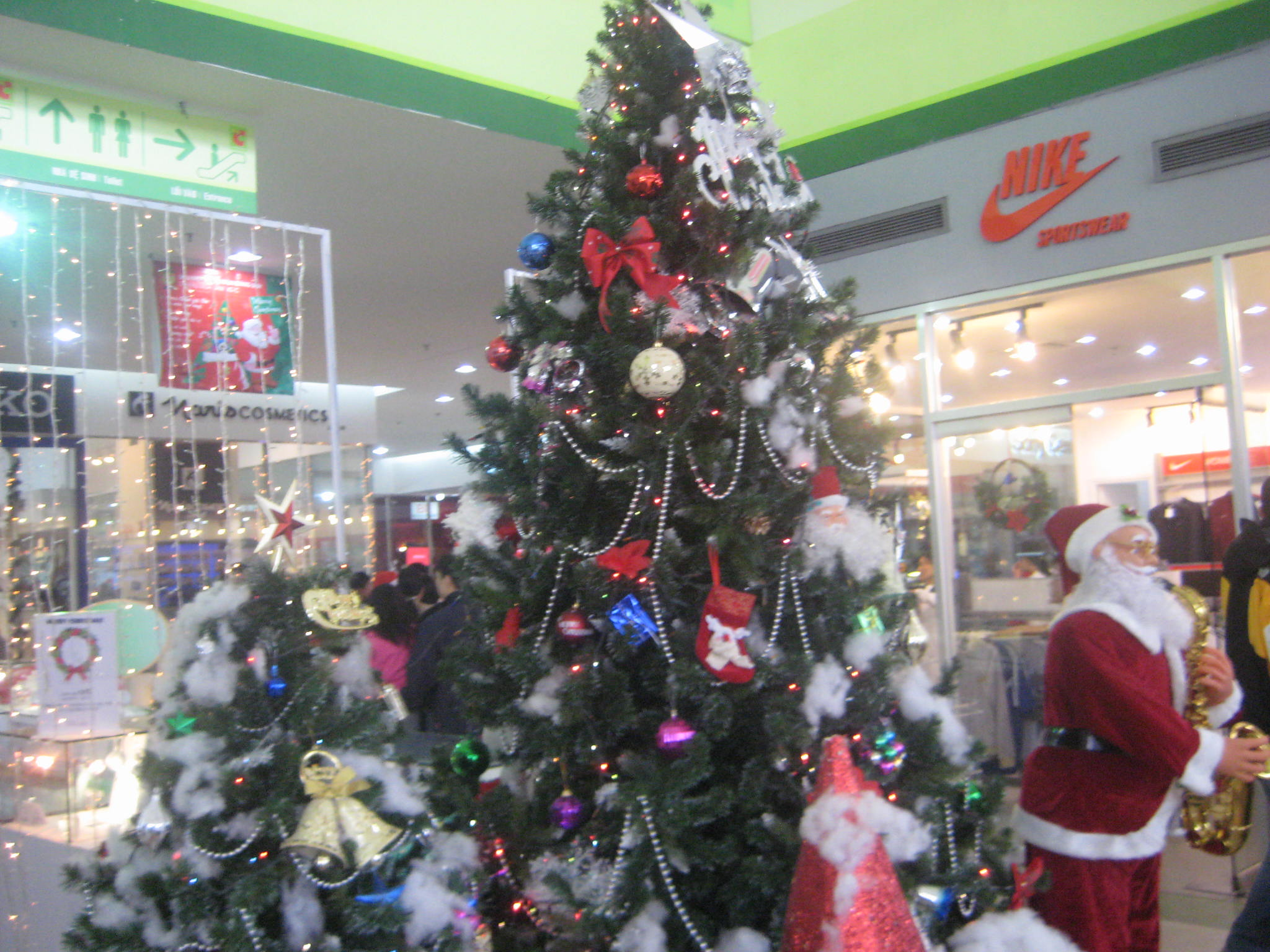 "Sapin de Noël" in Big C Thăng Long Supermarket